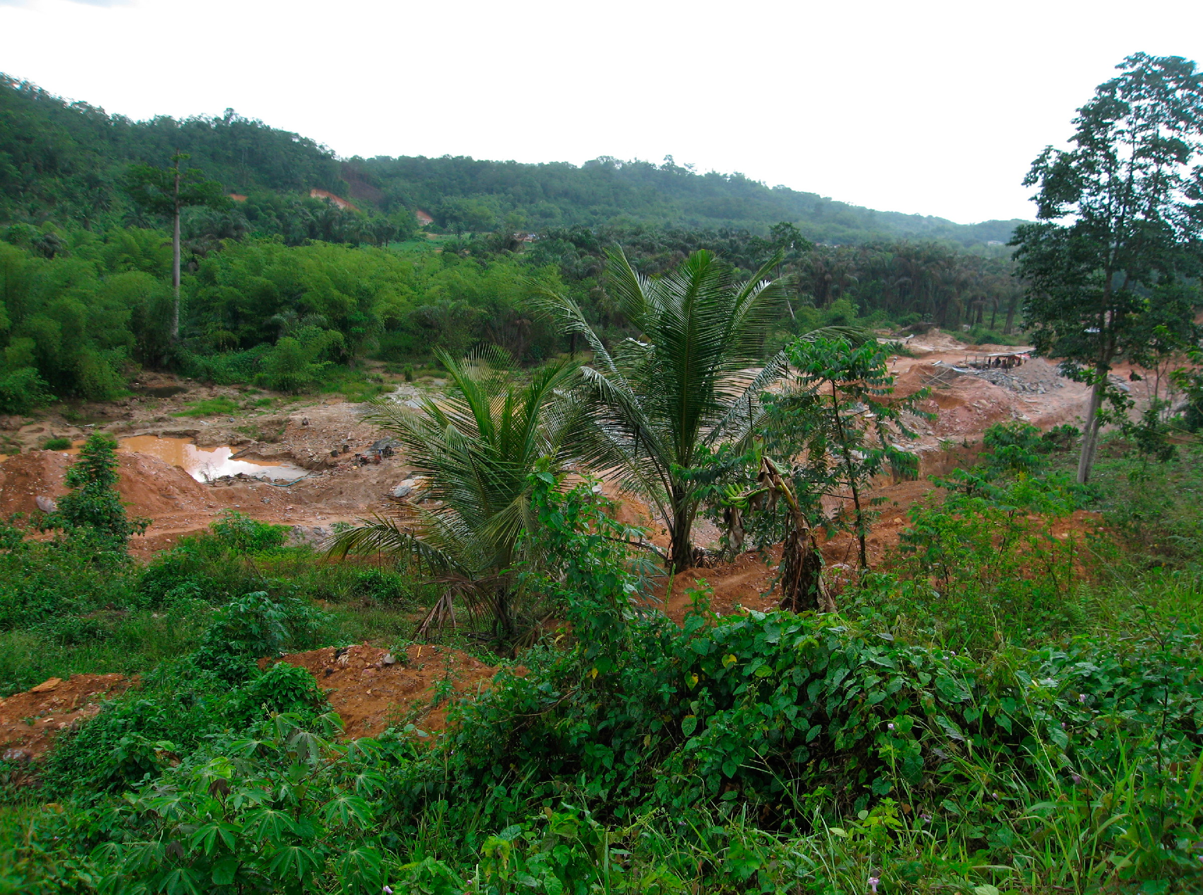 capture from Integrated Assessment of Artisanal and Small-Scale Gold Mining in Ghana—Part 2: Natural Sciences Review, Figure 12 illustration of altered nature and vegetation